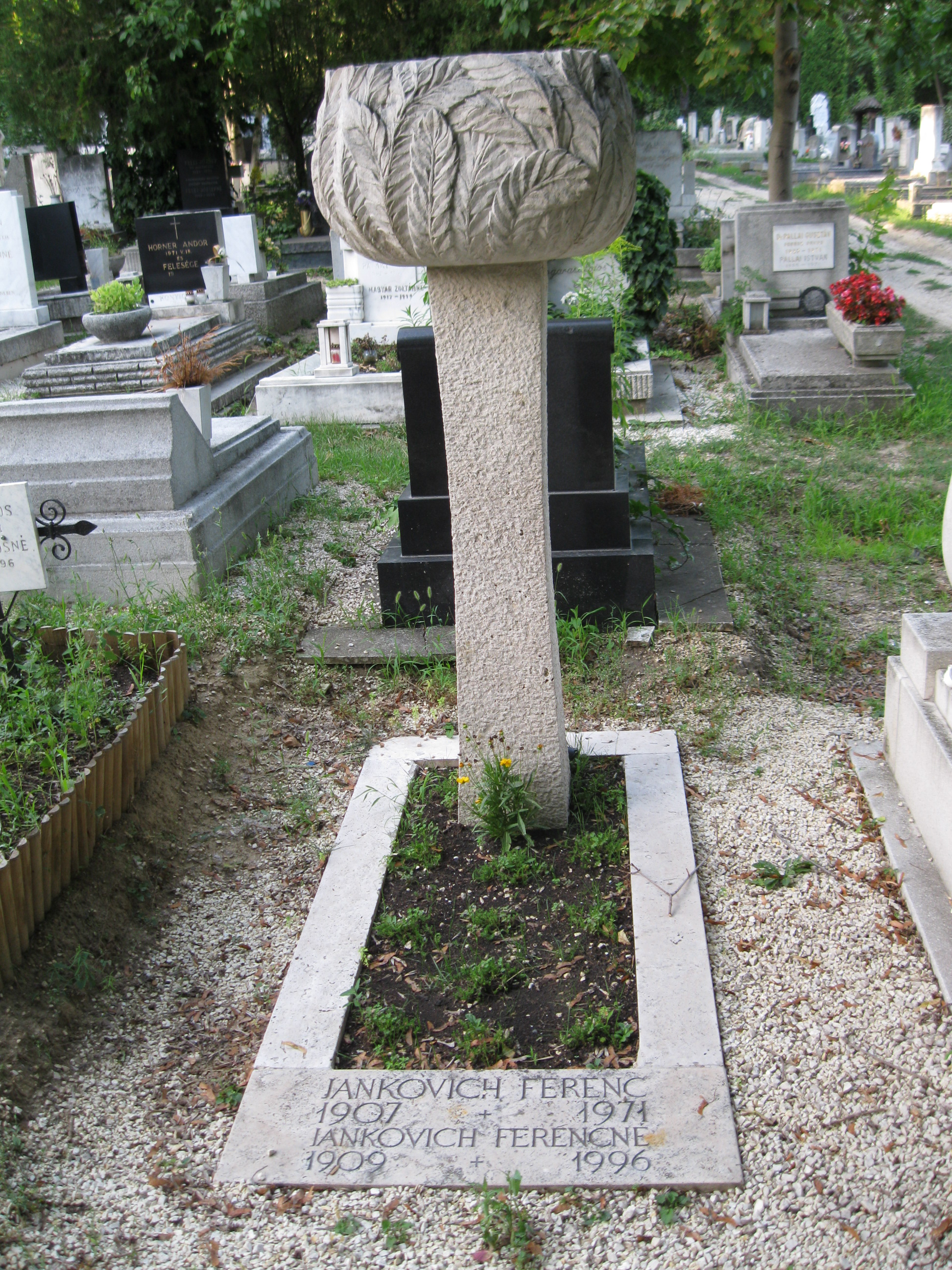 Tomb of Ferenc Jankovich in Farkasréti Cemetery [11/1-1-201]. Sculptor: Róbert Csíkszentmihályi. Erected in 1974.